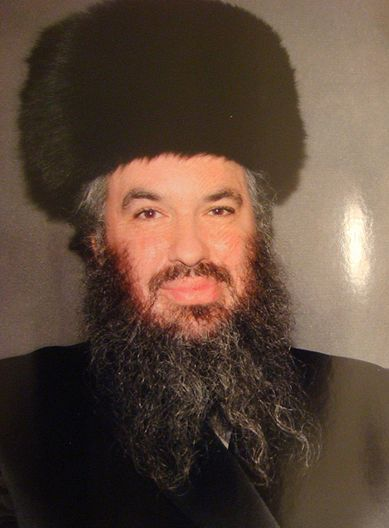 Photo Of Radziner ZT"L Boro Park